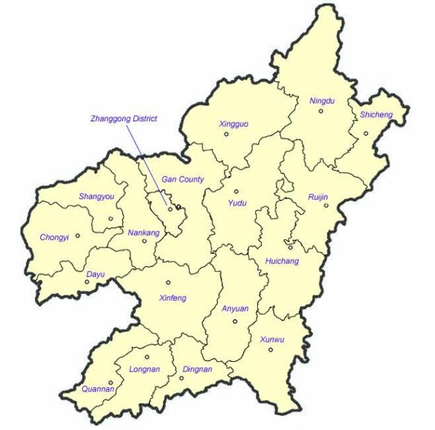 Ganzhou has jurisdiction over 1 district (Zhanggong), 2 county-level cities (Ruijin and Nankang) and 15 counties.